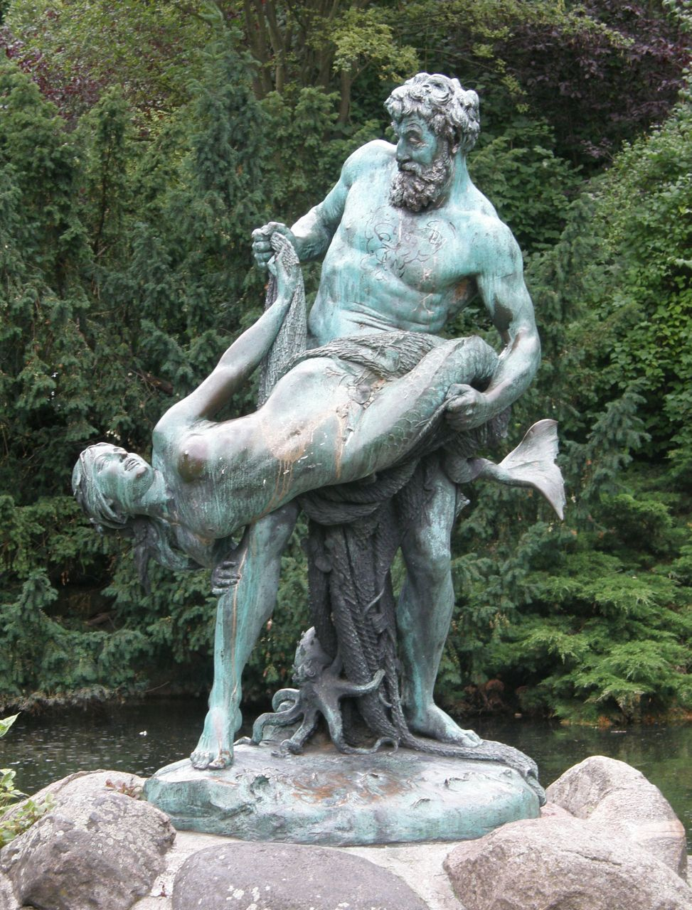 Ernst Herter (1846–1917) Description German sculptor Date of birth/death14 May 184619 December 1917Location of birth/deathBerlinBerlinWork locationBerlinAuthority controlVIAF: 77111692 | LCCN: n87129740 | GND: 118774247 | ULAN: 500267506 | WorldCat Der seltene Fang. 1896, Bronze. Im Vikotriapark am Wasserfall, Kreuzbergstraße, Berlin-Kreuzberg.